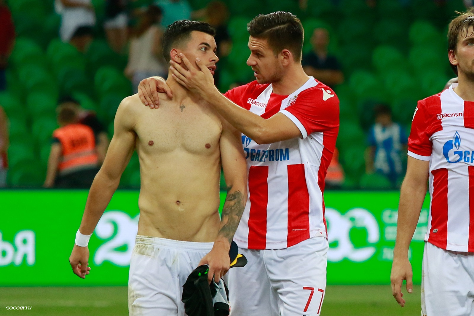 Marko Gobeljić and Nemanja Radonjić after the match against Krasnodar